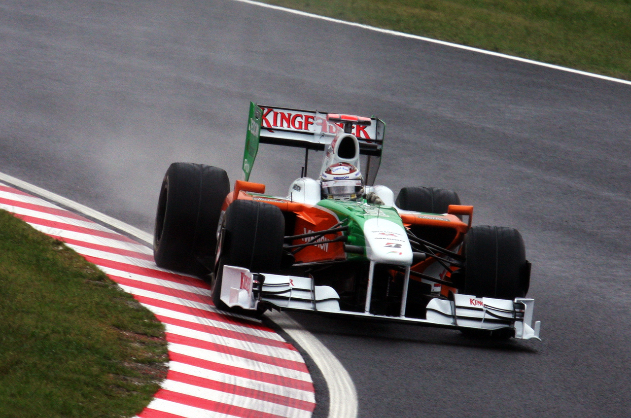 Formula One 2009 Rd.15 Japanese GP: Adrian Sutil (Force India) running in Friday 1st Free Practice session at the 2009 Japanese Grand Prix.